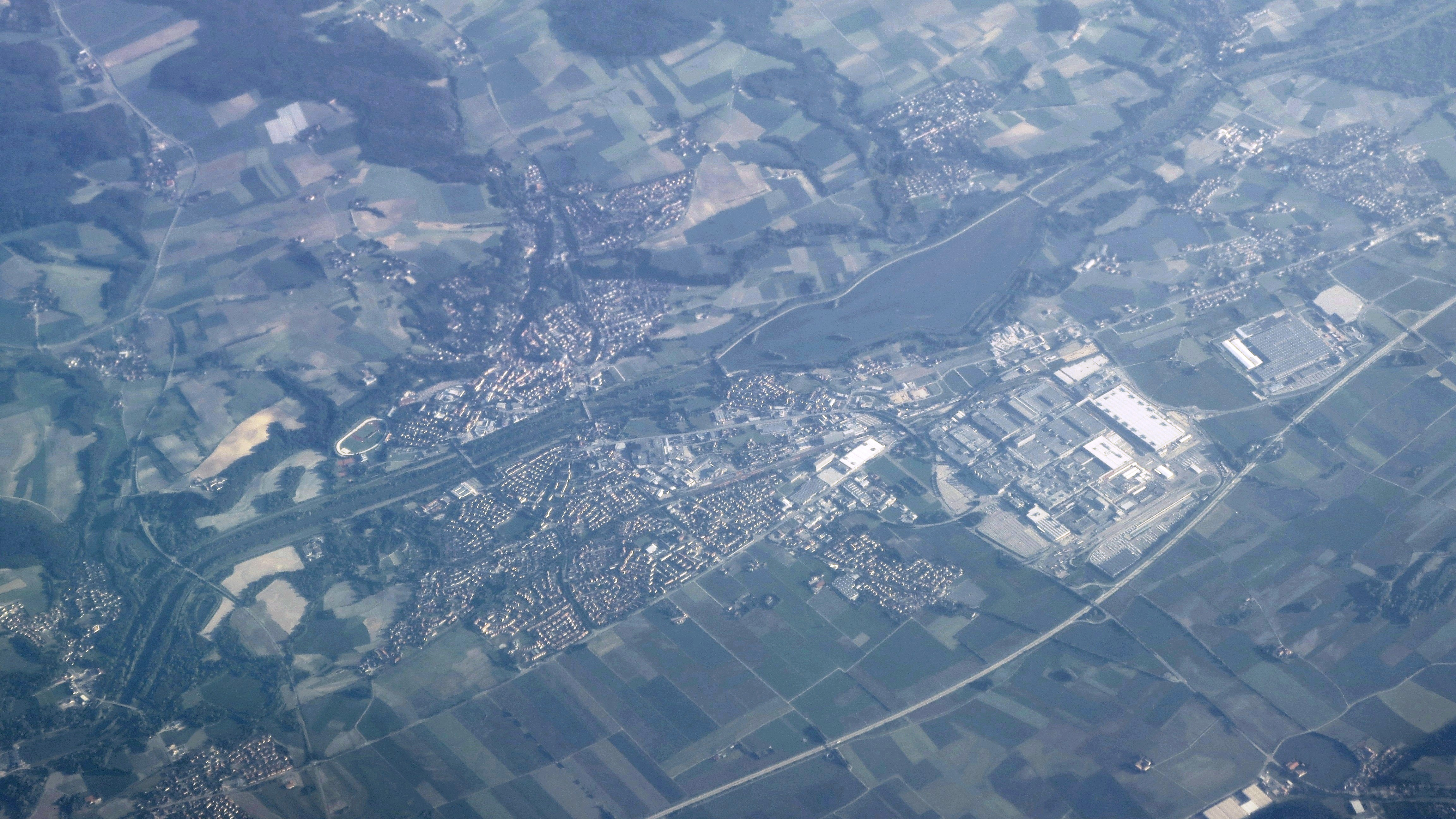 Dingolfing on the river Isar, with the large BMW works, in the state of Bayern (Bavaria), Germany. Aerial view from the north towards the south.